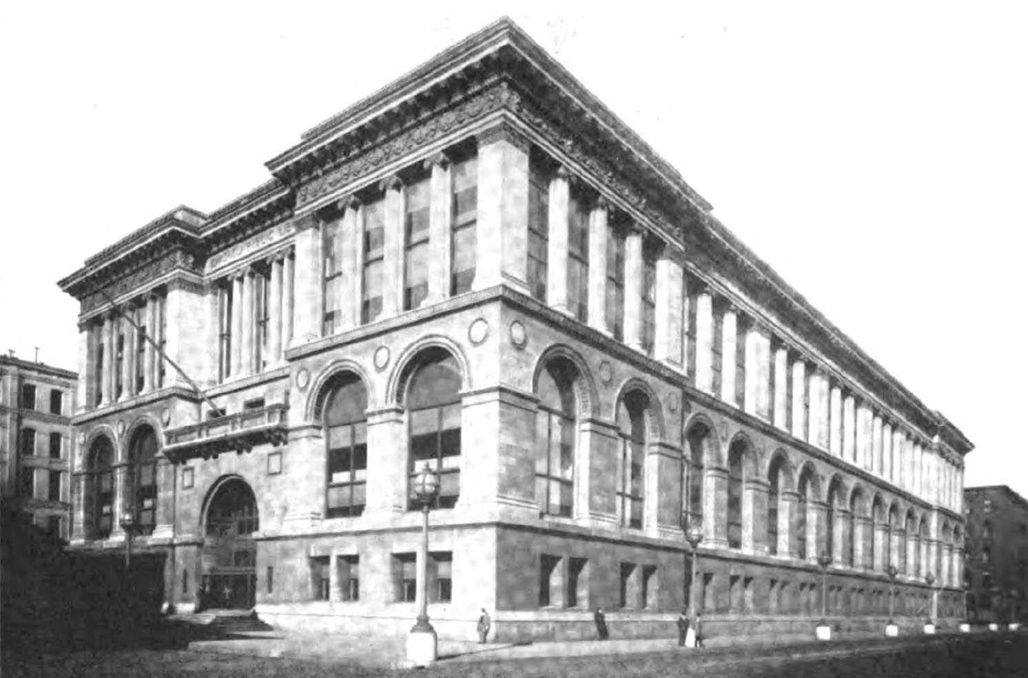 Photograph of the "Public Library of the City of Chicago"